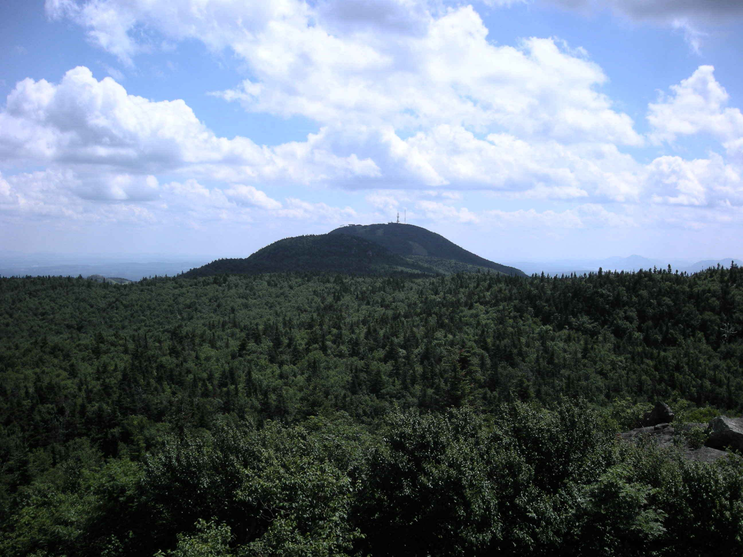 Top of Mont-Orford, Orford, Québec, Canada